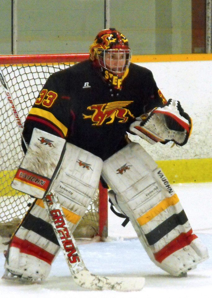 This photo was taken by Devan Mighton during the 2014-15 OUA season.